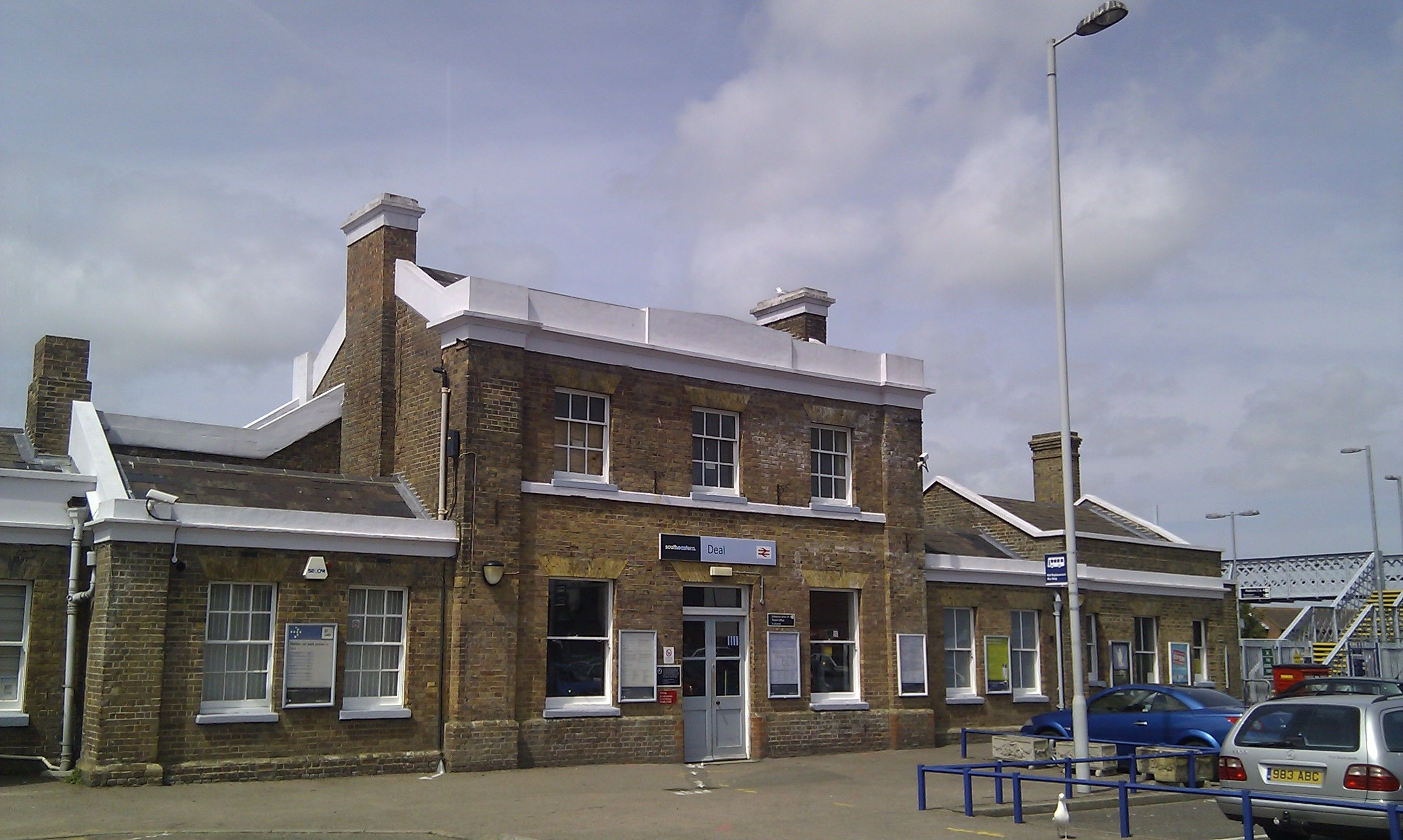 This is the original 1847 building, which became the 'up' platform building when the extension to Dover opened in 1881. It used to have a glass awning over the door.